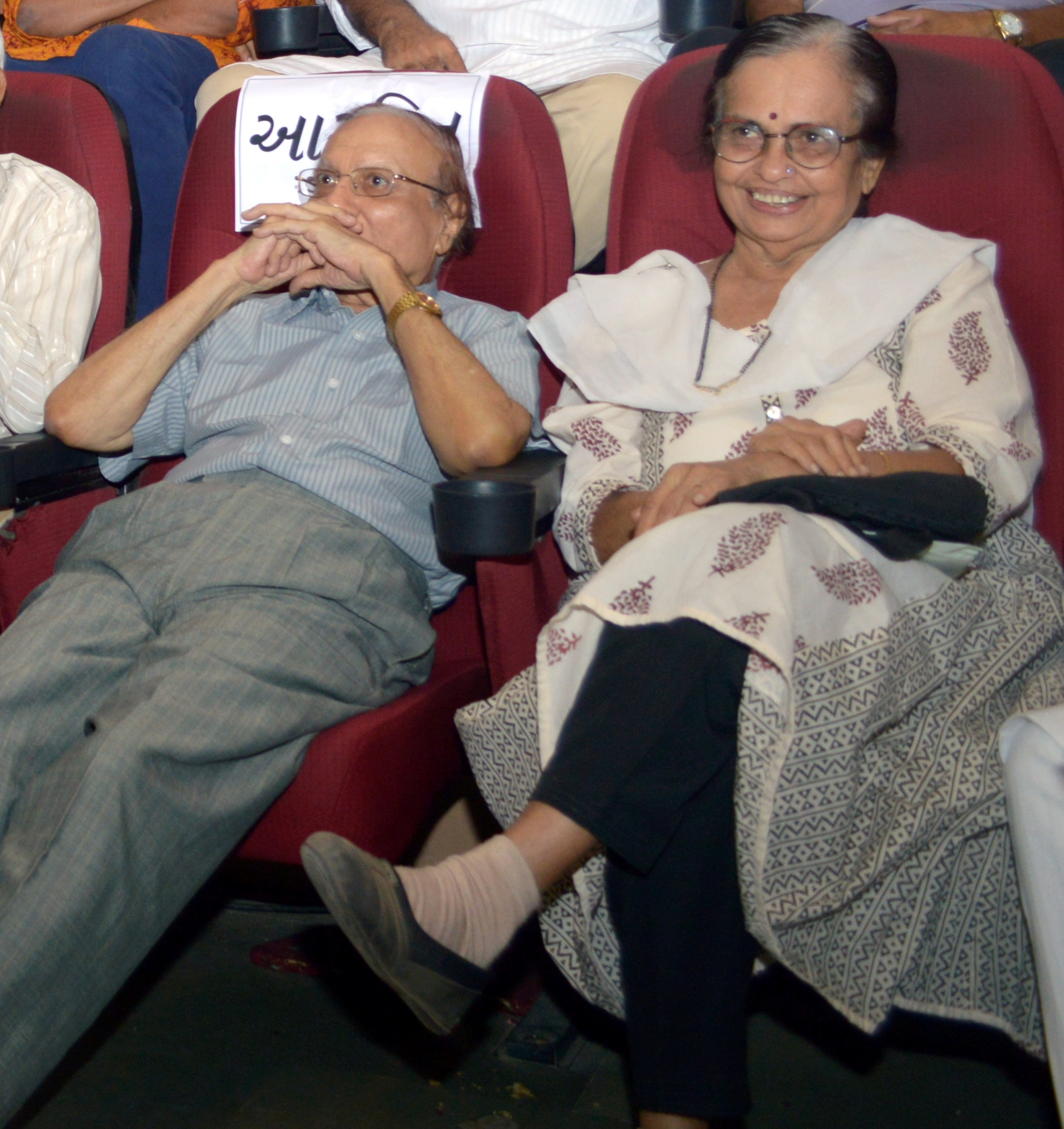 Chandrakant Topiwala with his wife Shalini Topiwala at Gujarati Sahitya Parishad on 19 June 2016